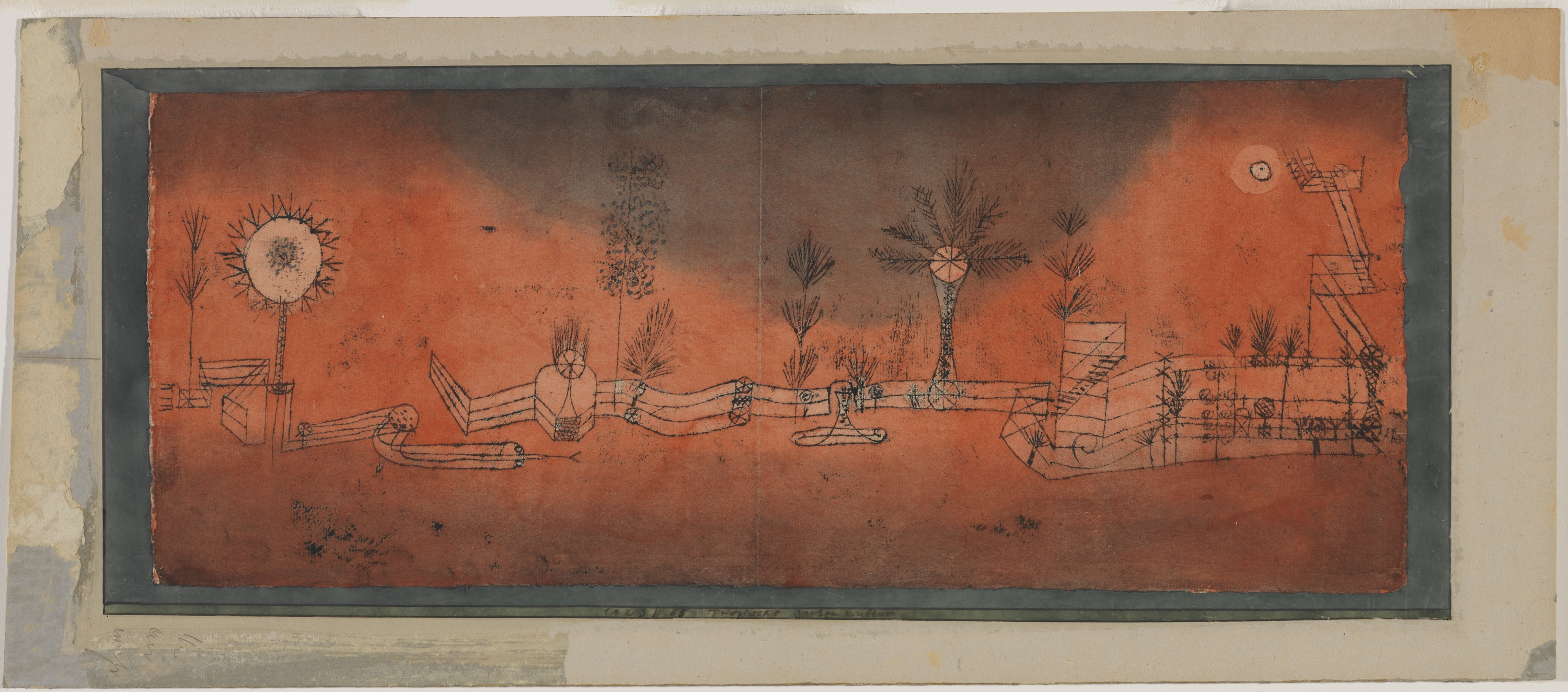 This file was provided to Wikimedia Commons by the Solomon R. Guggenheim Museum as part of a cooperation project. The Solomon R. Guggenheim Museum provides images depicting artworks which are public domain or licensed under a free license.